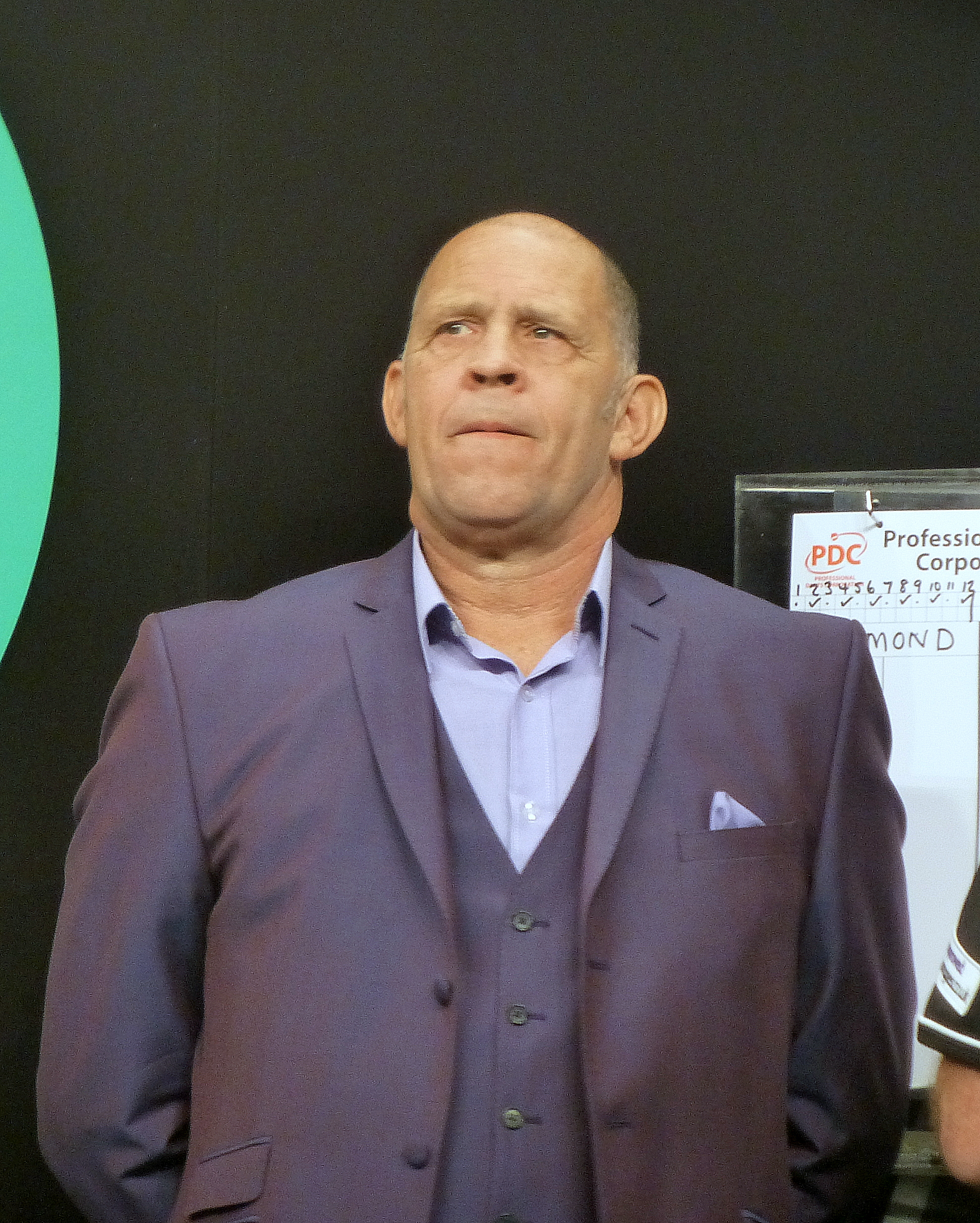 Russ Bray on 3 March 2016 in Exeter